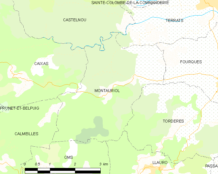 Map of French municipality